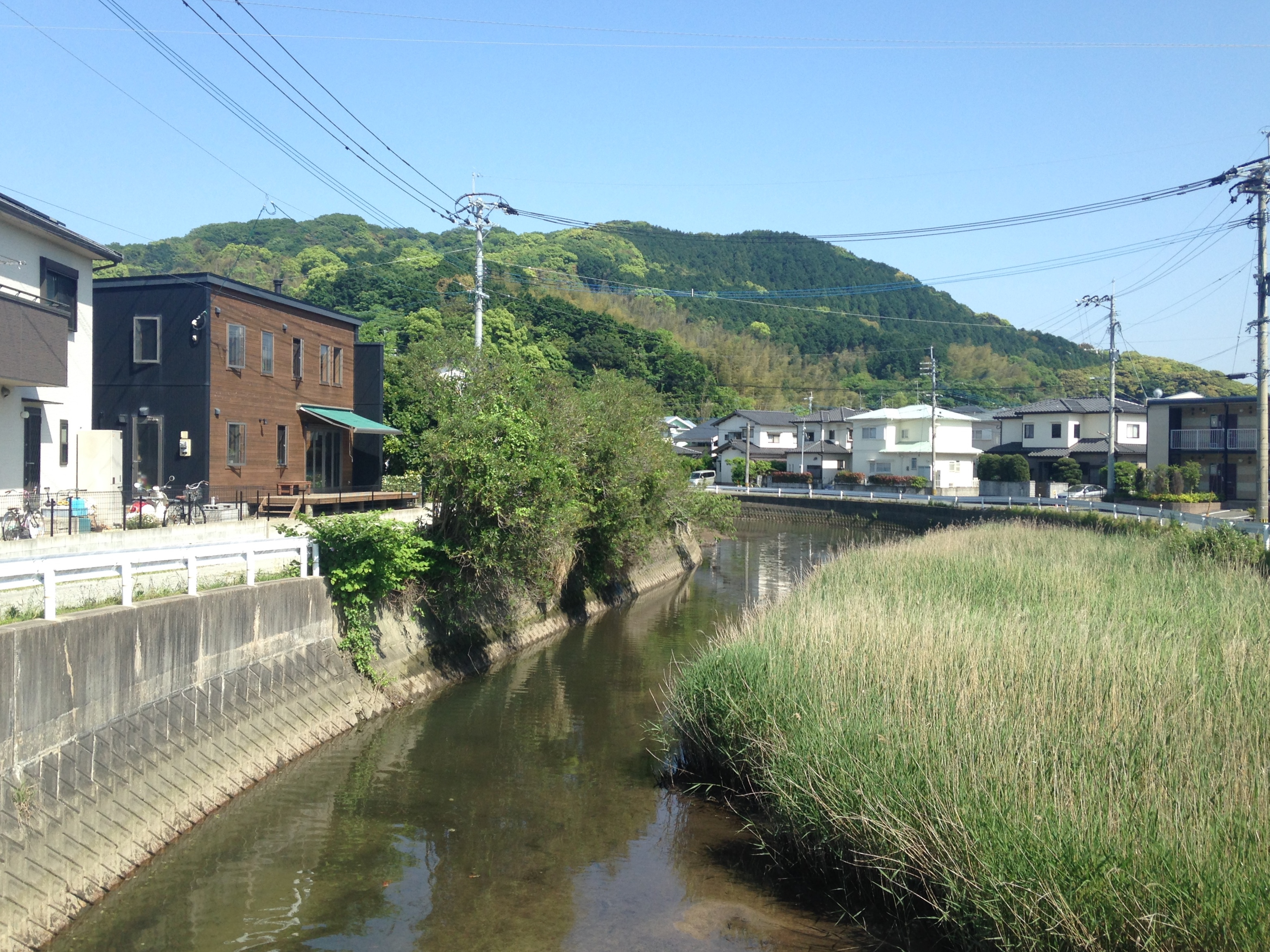 Mount Nagatare and Nanadera River, view towards downstream